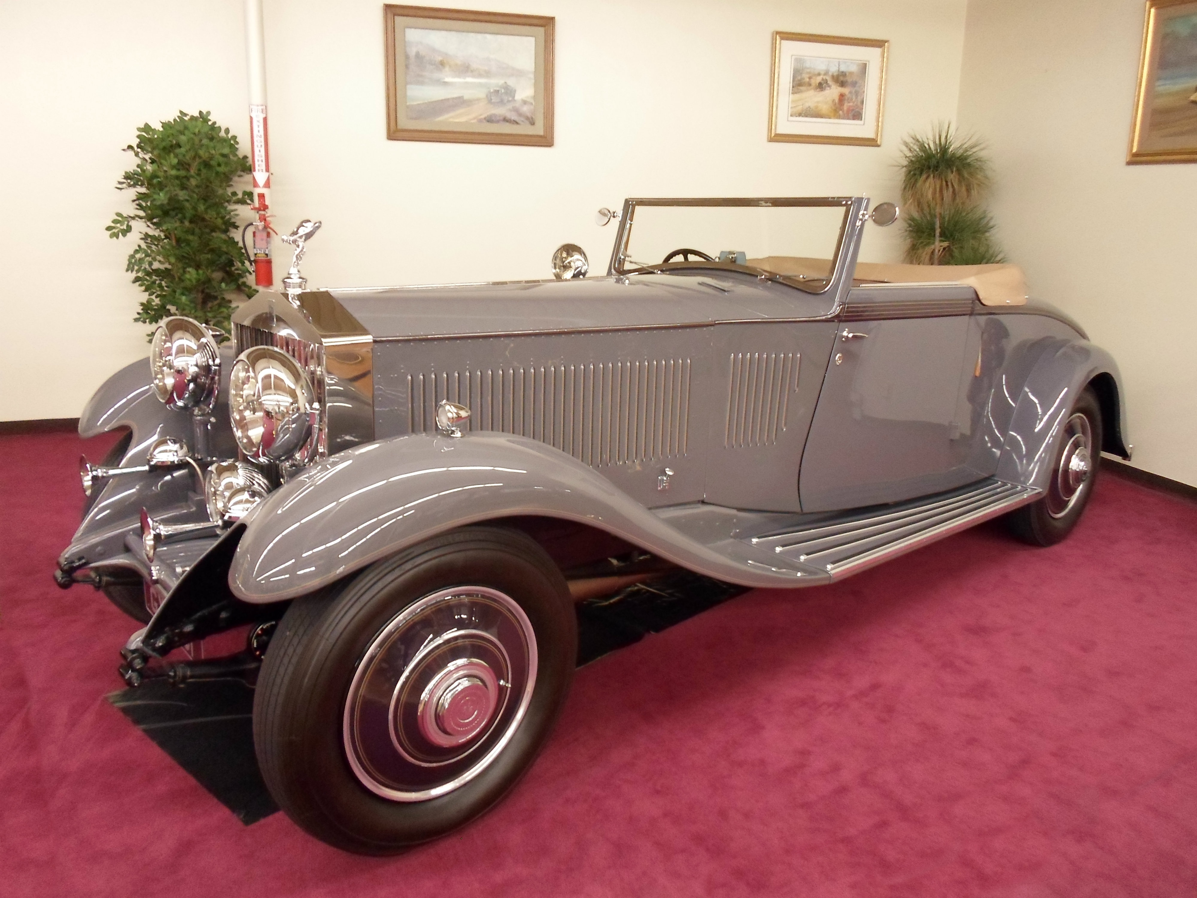 1932 Rolls Royce Phantom II with Carlton bodywork. Asking price was $600k.